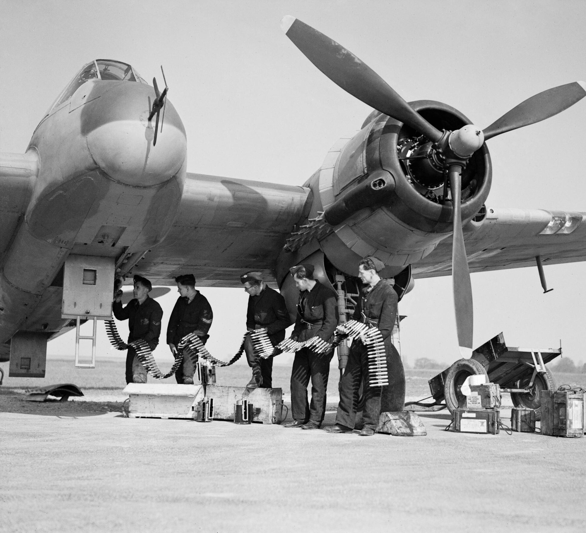 Bristol Beaufighter Mk VIF of No. 96 Squadron RAF being re-armed at Honiley, Warwickshire, 23 March 1943. Beaufighter VIF V8748/ZJ-R of No. 96 Squadron being re-armed at Honiley, 23 March 1943. The armourers are feeding belts of ball and high-explosive incendiary ammunition into the magazines of the aircraft's four 20mm Hispano cannon.